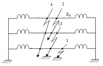 Qısa qapanmaların növləri